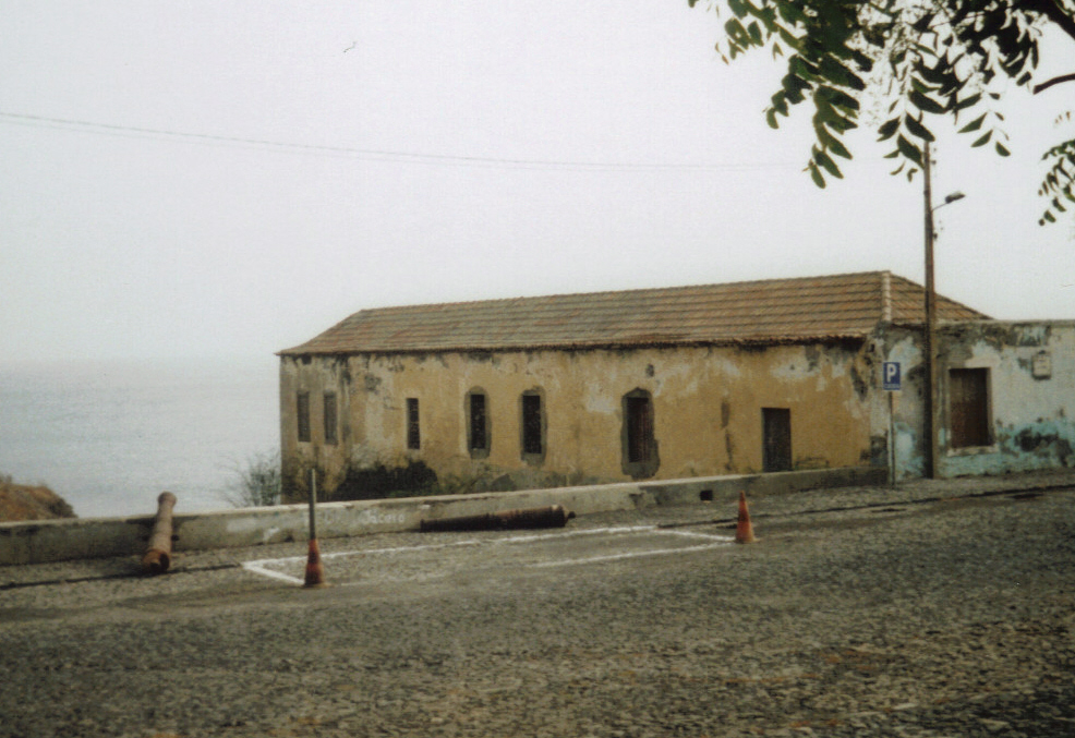 Old fortress Fortim Carlota, São Filipe, Fogo, Cape Verde.